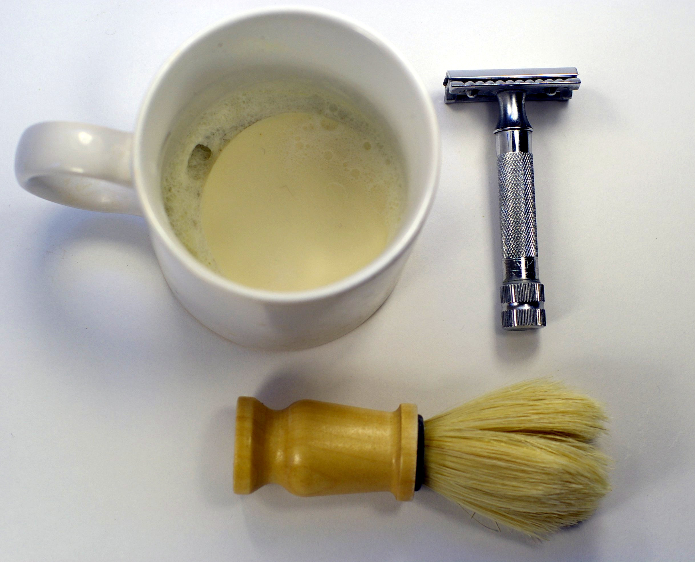 Safety Razor Set - A safety razor, shaving brush, and mug with shaving soap.